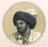 General-Leitenant Baron Vrevskii; Bashnia v Kadorskom ushchel'e; Shamil', Imam Chechni I Dagestana; Khadzhi -Murat, naib Shamilia; Razorennyia Tsinondaly; Tserkov' Sv. Davida v Tiflise.